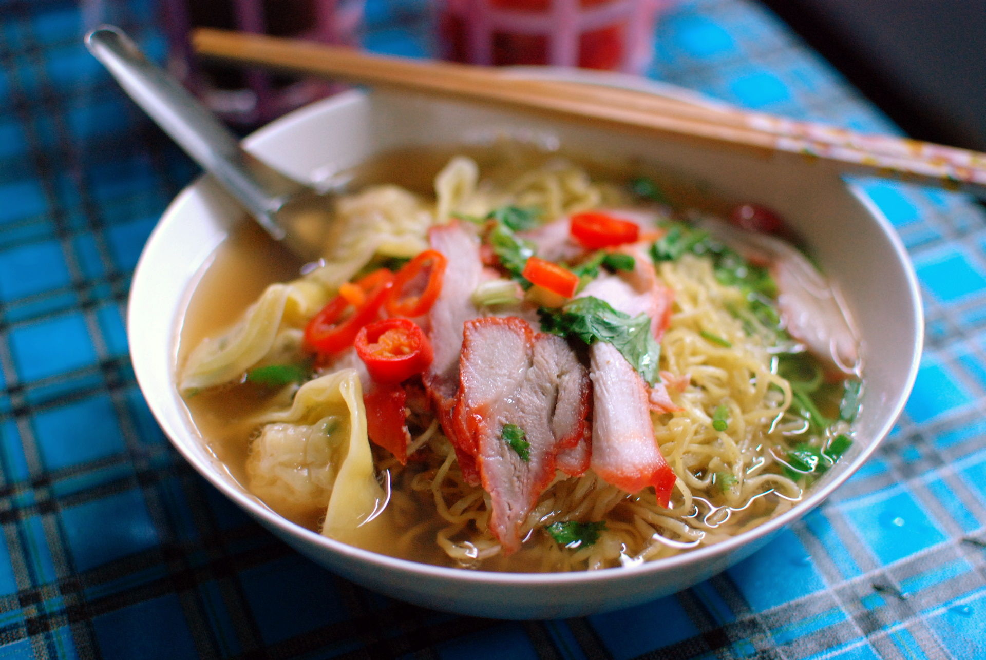 Bami mu daeng kiao kung (Thai script: บะหมี่หมูแดงเกี๊ยวกุ้ง) is a noodle soup with wheat noodles (bami), grilled pork (mu daeng; the Thai version of char siu) and prawn dumplings (kiao kung; similar to the Chinese wonton). Chillies preserved in vinegar, dried chilli flakes, sugar and fish sauce are added to taste.